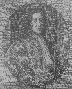 Peter Le Neve, Norroy King of Arms at the College of Arms from a 1708 engraving.